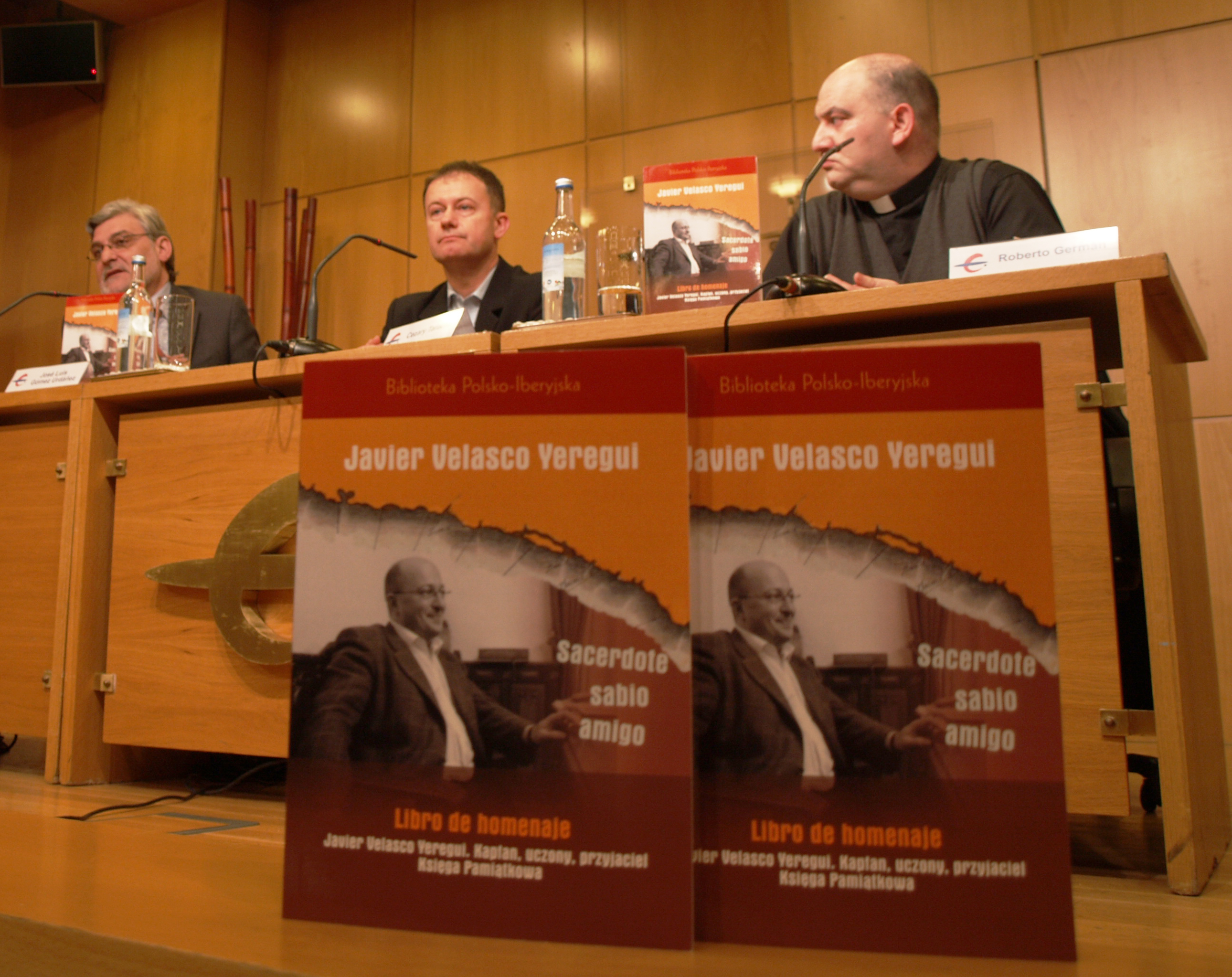 Press conference presentation of the bookYeregui Javier Velasco. Priest, scholar, friend.